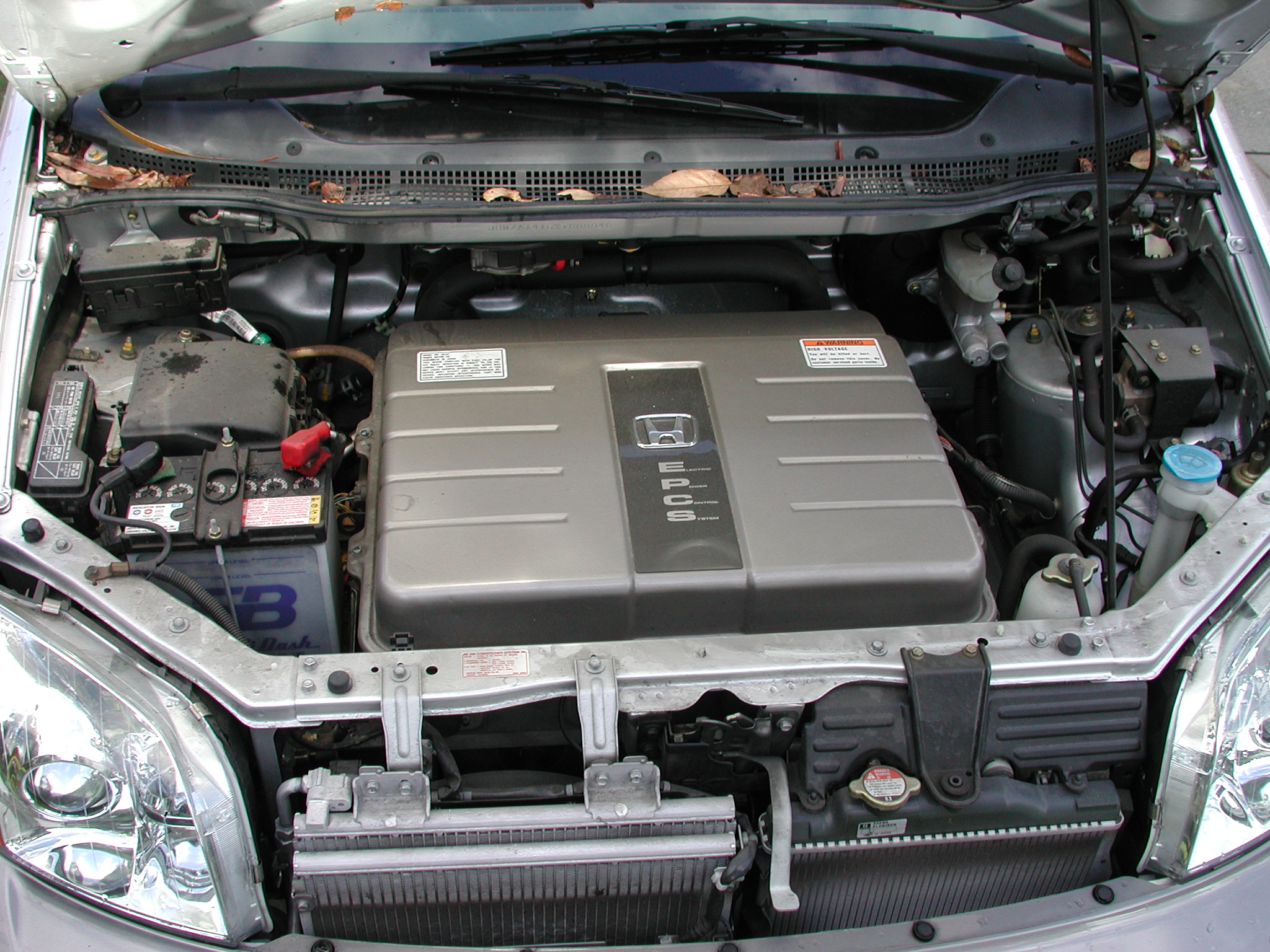 Engine of a 1997-1999 Honda EV Plus